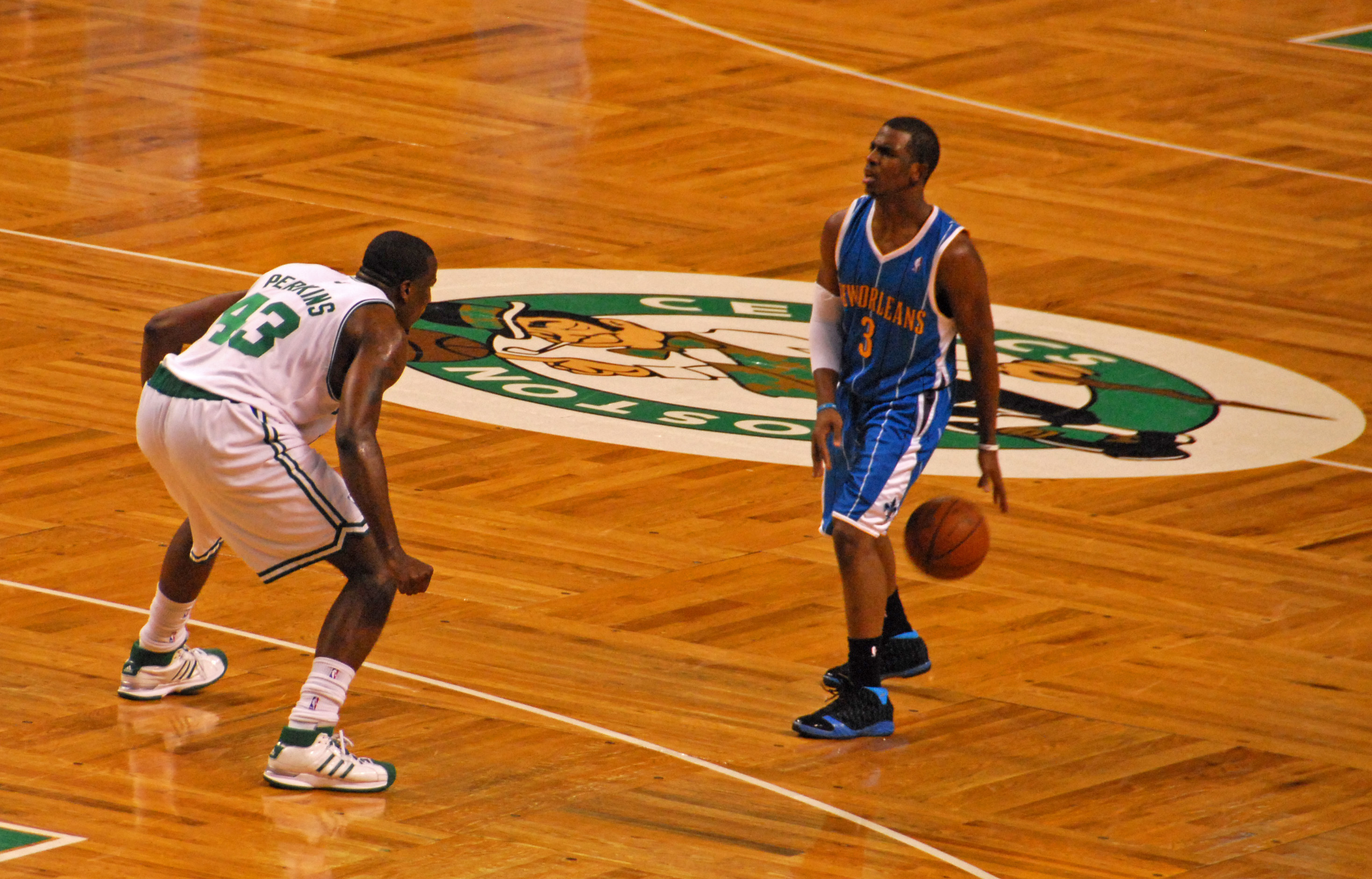 odd matchup, these two had words towards the end of the game and were antagonizing each other